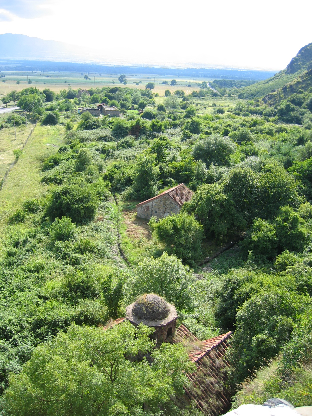 View from Gremi, Kakheti, Georgia